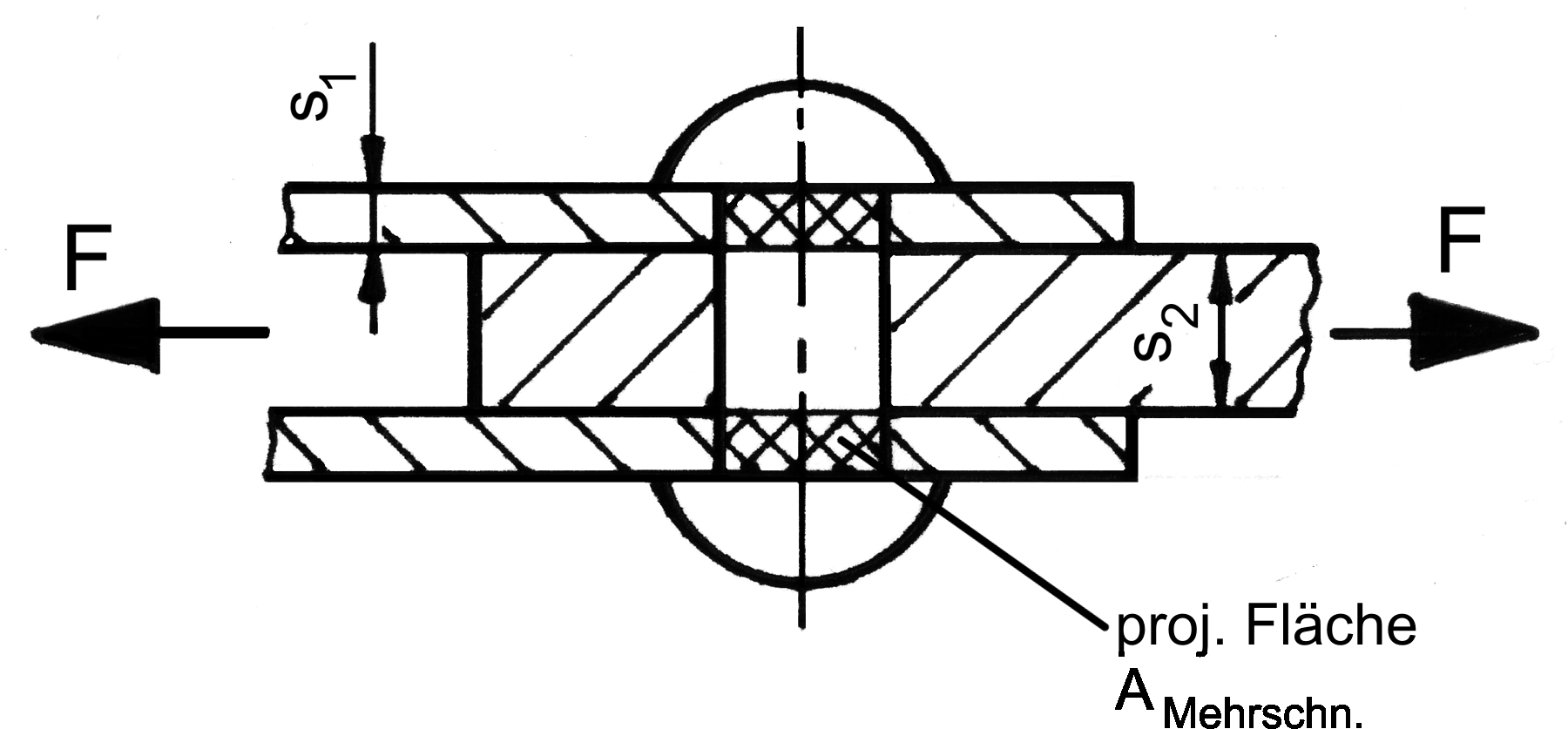 rivet, hole intrados pressure - multi-cutting connection